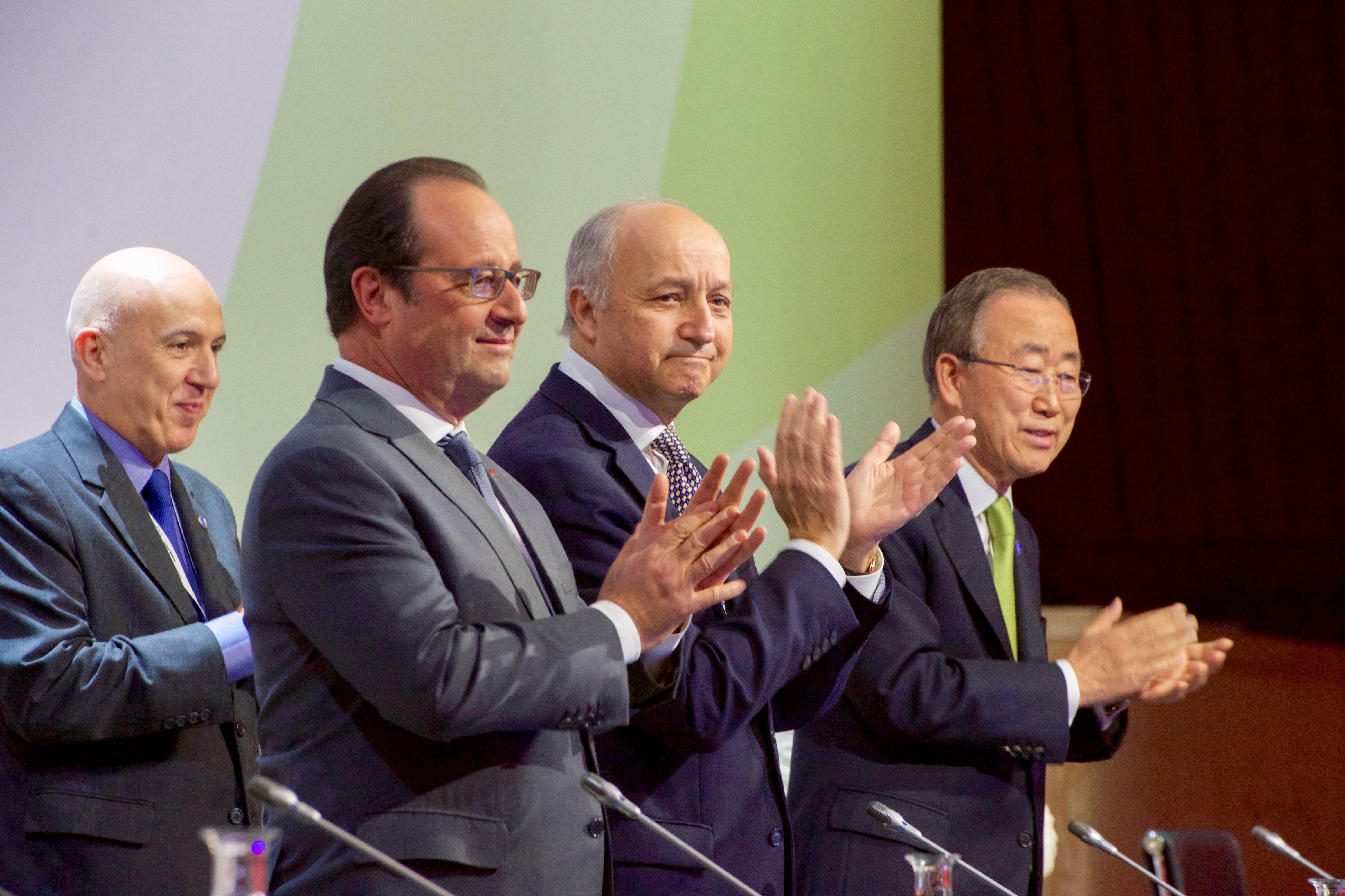 French President Francois Hollande, French Foreign Minister Laurent Fabius, President of the COP21 climate change conference, and United Nations Secretary-General Ban Ki-moon applaud the delegates to the COP21 climate change conference on December 12, 2015, after arriving in the Plenary Hall at LeBourget Airport in Paris, France. [State Department photo/ Public Domain]